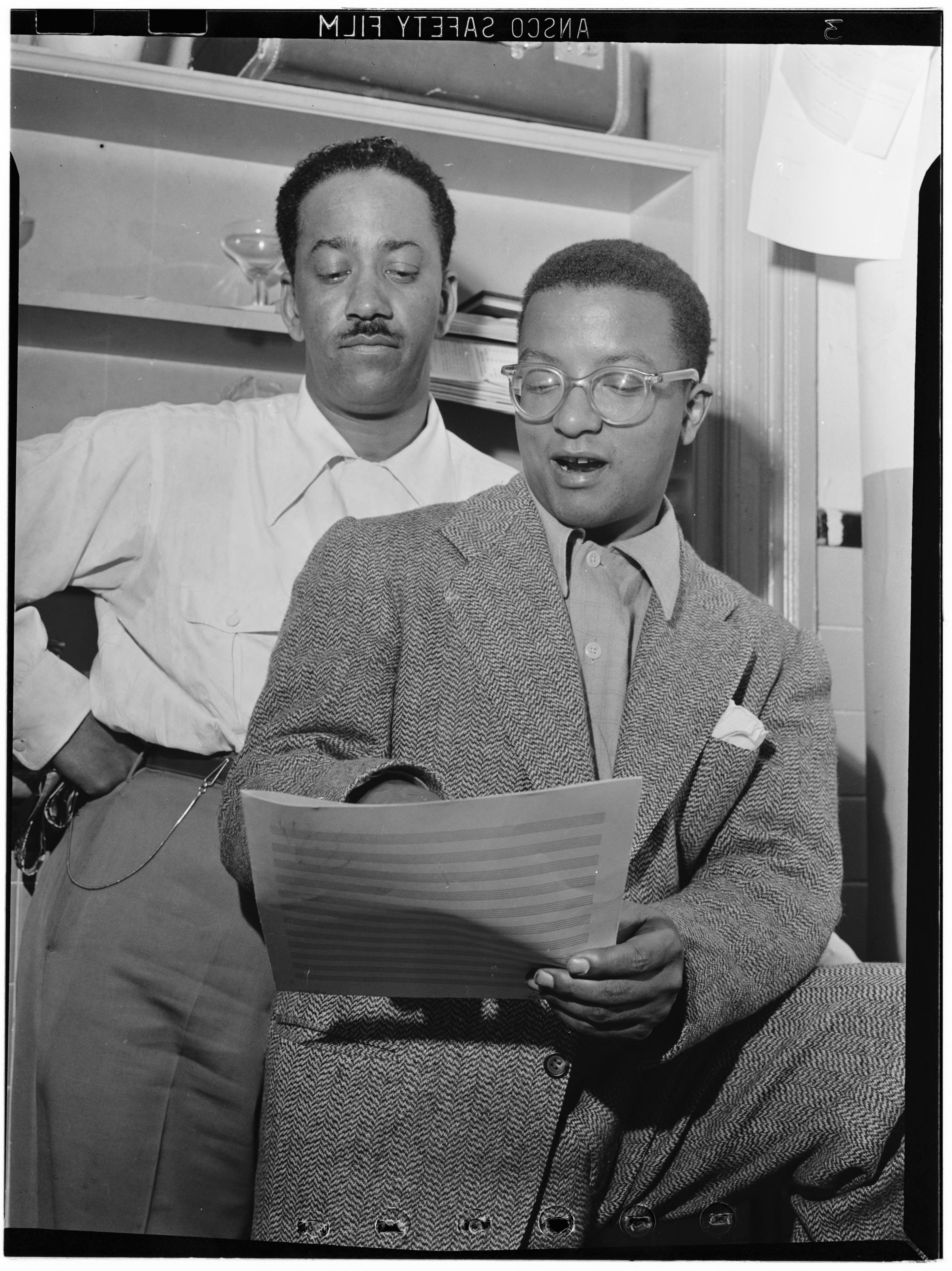 Gottlieb, William P., 1917-, photographer. [Portrait of Billy Strayhorn, New York, N.Y., ca. June 1947] 1 negative : b&w ; 3 1/4 x 4 1/4 in. Caption from Down Beat: Los Angeles--Richard M. Jones (at right above), valet and chief factotum for Duke Ellington for two decades, died here on August 6 from a complication of illnesses. Knows as "Jonesy" or "Bowdin" to members of the band, he joined Ellington in 1927 at the Cotton Club and had been a trusted employe[e] ever since. He is seen above with Billy Strayhorn, arranger (left), and Jerome Rhea, secretary, discussing one of the maestro's neckties. Notes: Gottlieb Collection Assignment No. 477 Reference print available in Music Division, Library of Congress. Purchase William P. Gottlieb Forms part of: William P. Gottlieb Collection (Library of Congress). In: "Jonesy answers final call," Down Beat, v. 13, no. 18 (Aug. 26, 1946), p. 2. Subjects: Strayhorn, Billy Rhea, Jerome Jones, Richard M. Jazz musicians--1940-1950. Composers--1940-1950. Pianists--1940-1950. Format: Portrait photographs--1940-1950. Group portraits--1940-1950. Film negatives--1940-1950. Rights Info: Mr. Gottlieb has dedicated these works to the public domain, but rights of privacy and publicity may apply. Repository: (negative) Library of Congress, Prints & Photographs Division, Washington D.C. 20540 USA, (reference print) Library of Congress, Music Division, Washington D.C. 20540 USA, Part Of: William P. Gottlieb Collection (DLC) 99-401005 General information about the Gottlieb Collection is available at Persistent URL: Call Number: LC-GLB13- 0823 This work is from the William P. Gottlieb collection at the Library of Congress. Rights and restrictions.In accordance with the wishes of William Gottlieb, the photographs in this collection entered into the public domain on February 16, 2010.